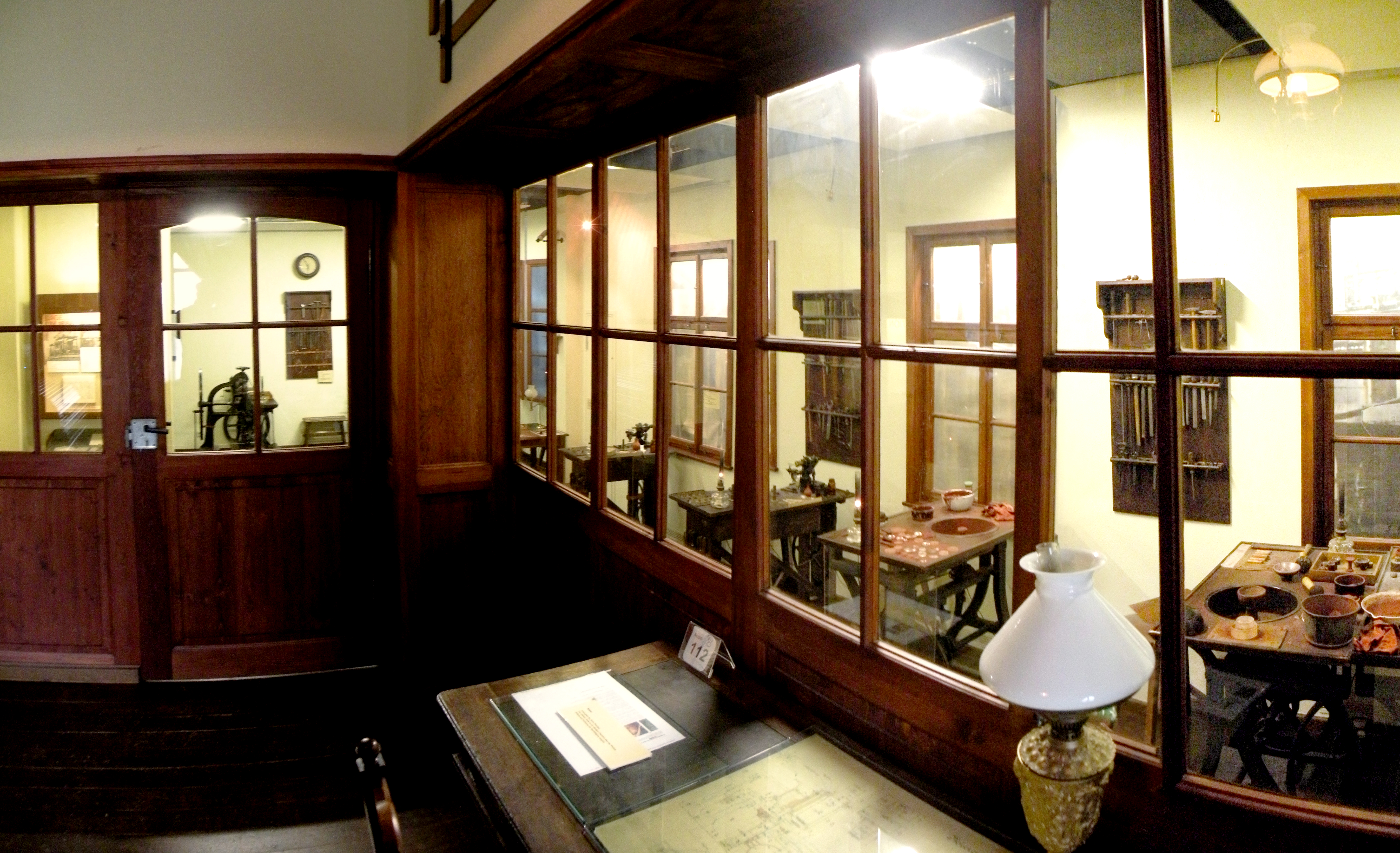 Historical Zeiss workshop at the Optical Museum in Jena, Germany